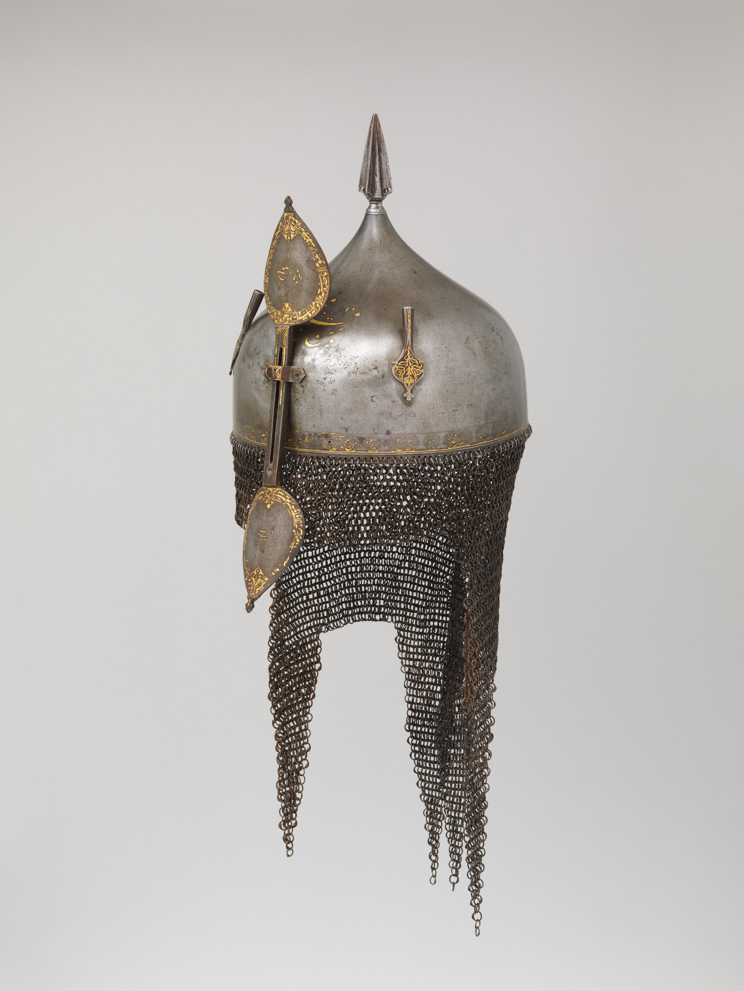 Indian, Deccan, possibly Golconda; Helmet; Helmets